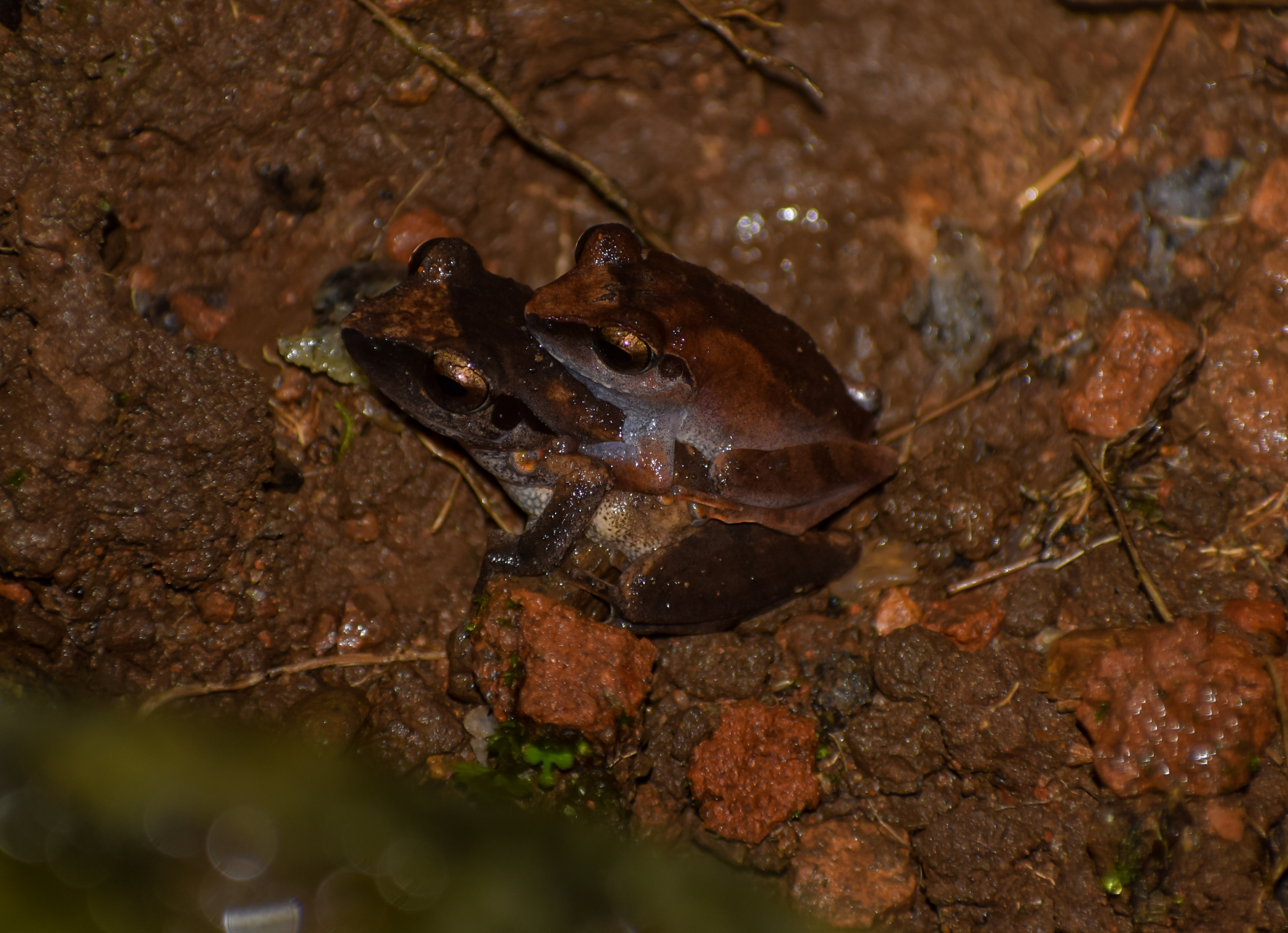 Pseudophilautus wynaadensis-Waynad bush frog in Amplexus